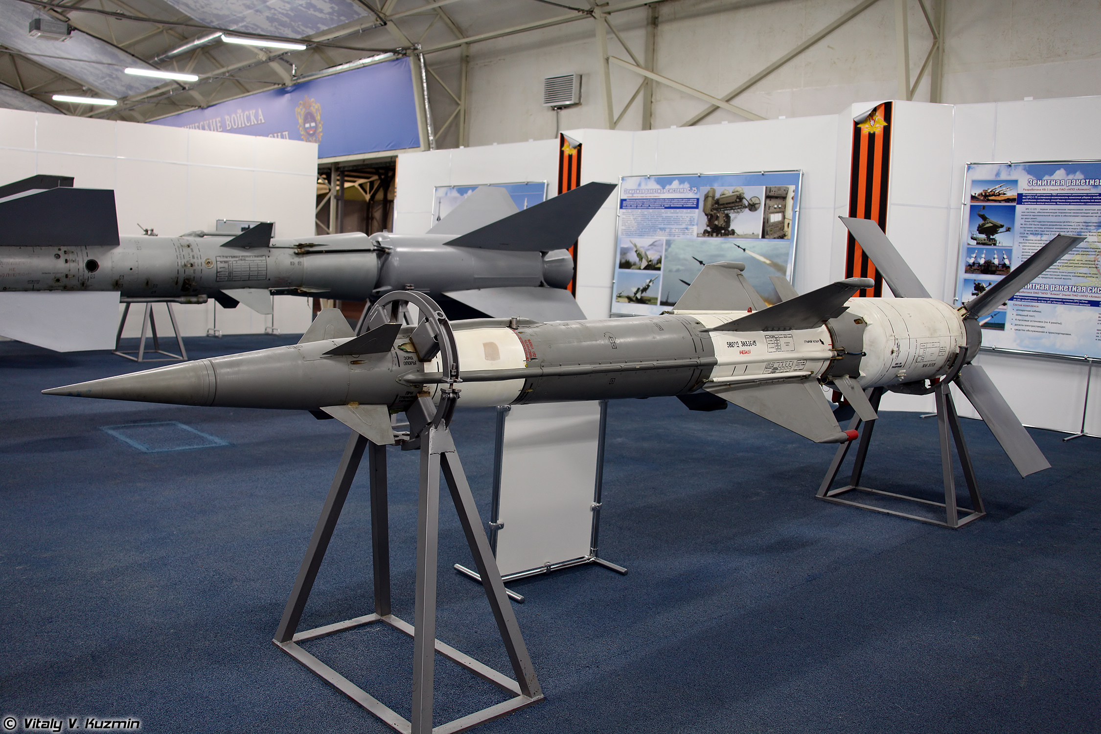 5V27D SAM S-125M system